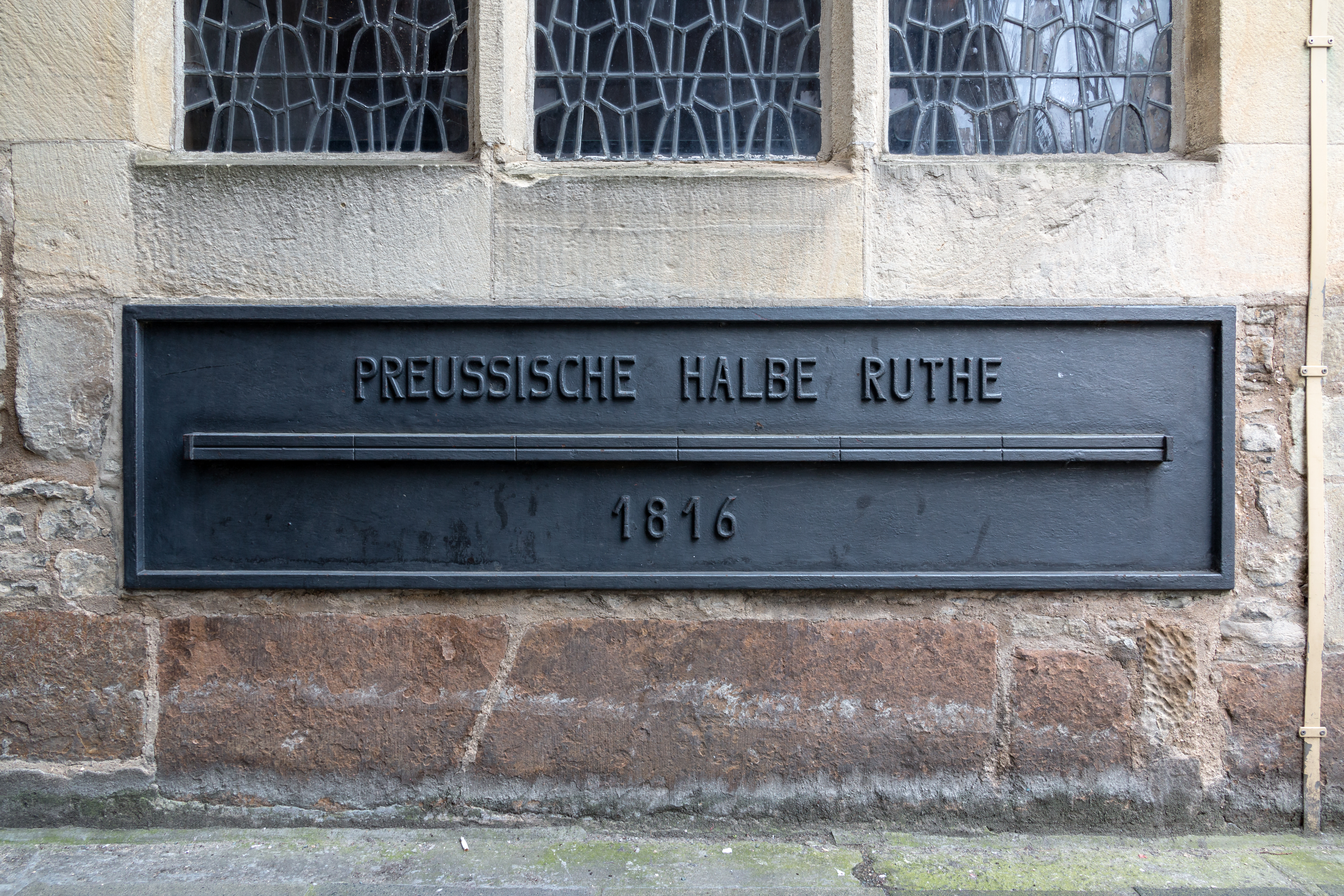 Public standard of length for the Prussian half rod at the historical town hall in Münster, North Rhine-Westphalia, Germany